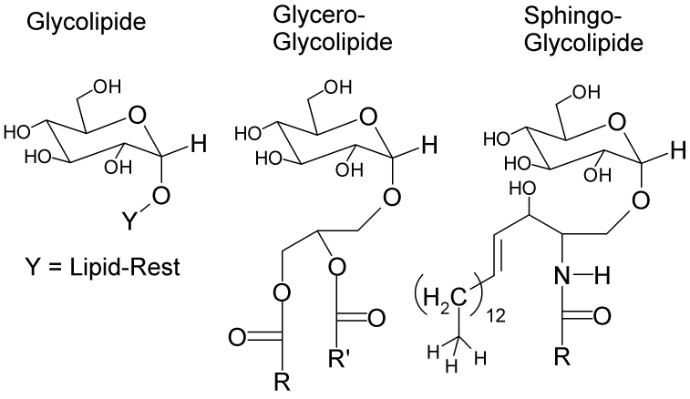 Chemical structure of Glycolipides